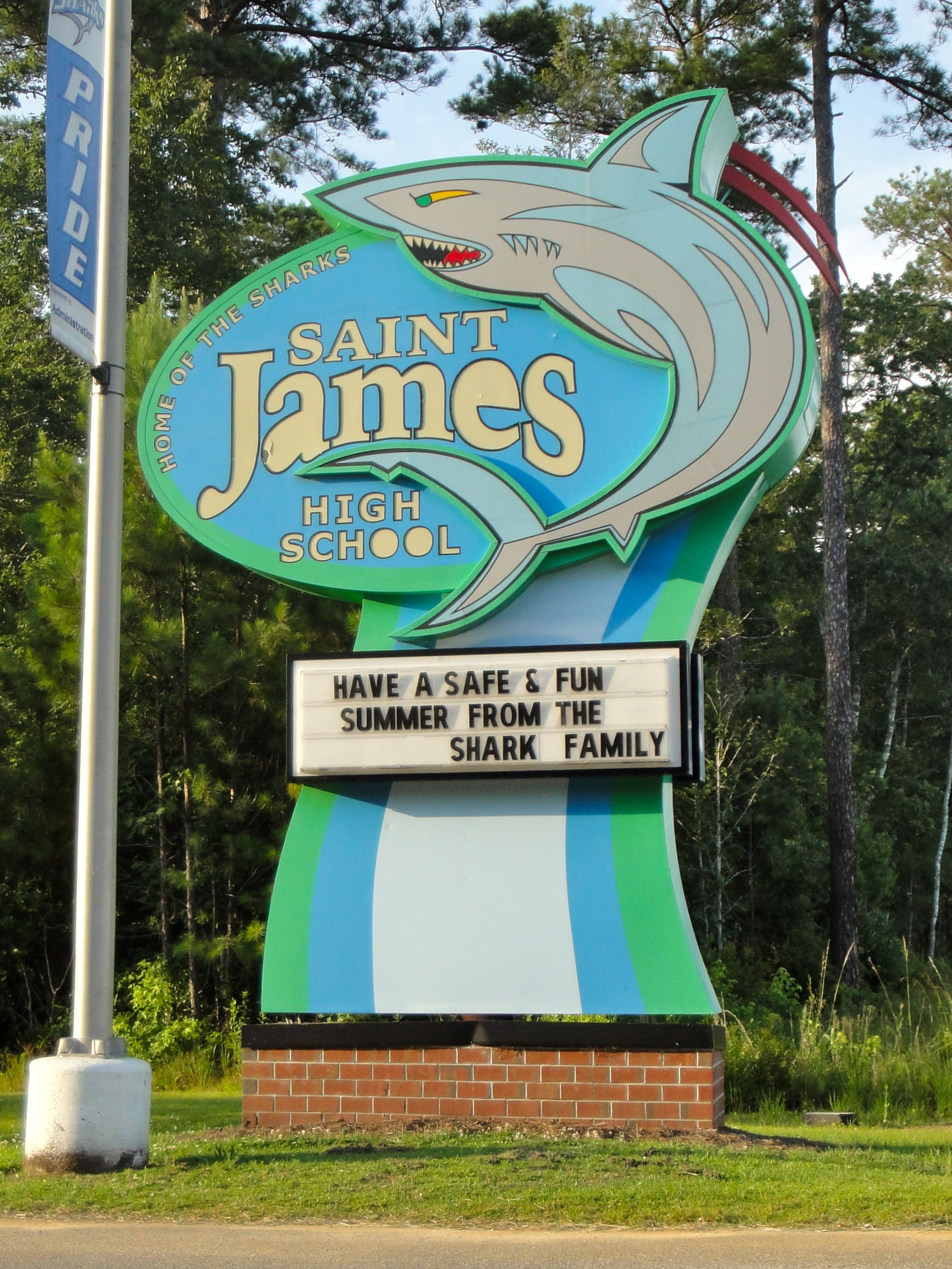 A picture of the front sign at the entrance of St. James High School located in Murrells Inlet, SC.